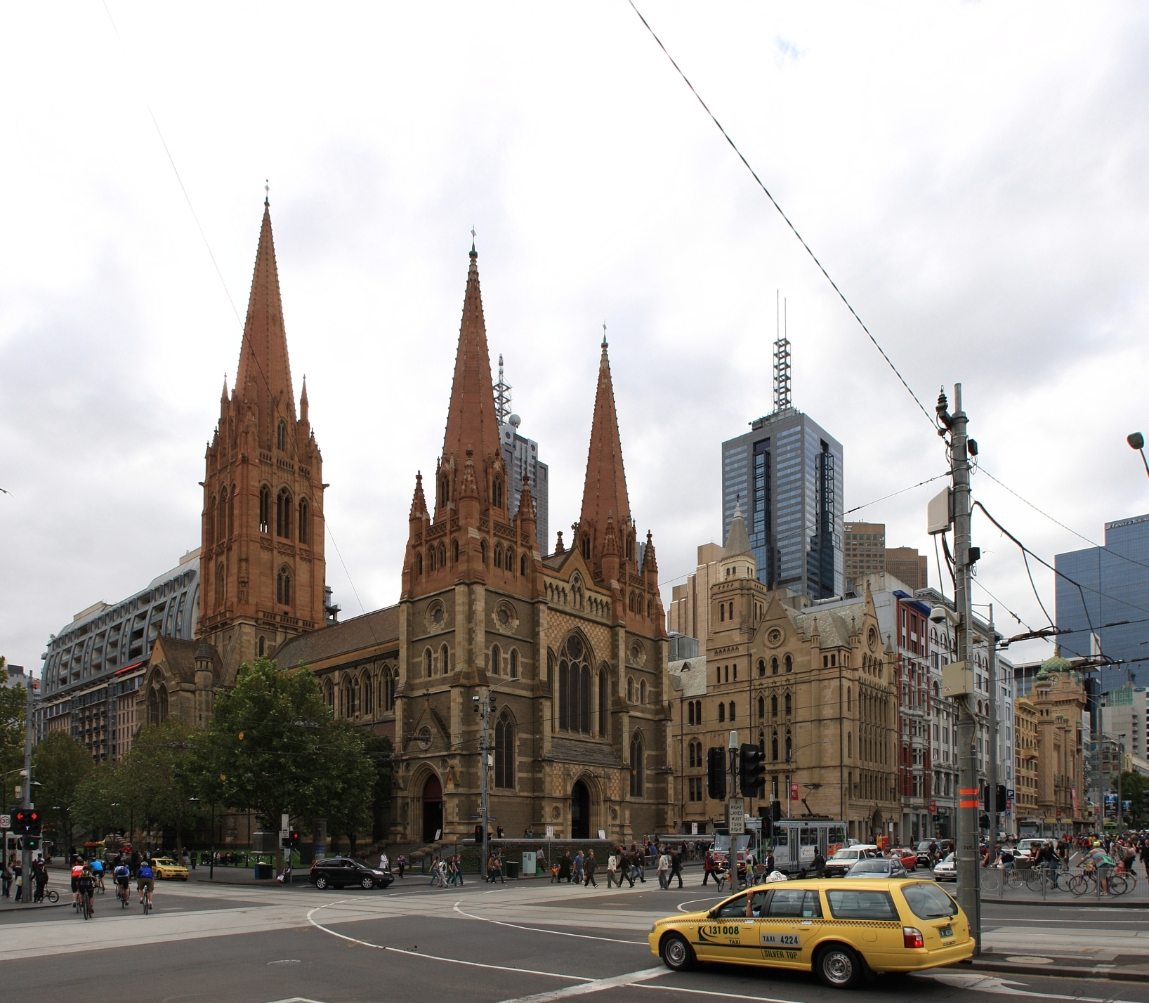 St Paul's Cathedral, Melbourne, corner of Flinders Street and Swanston Street, from the Flinders Street Station